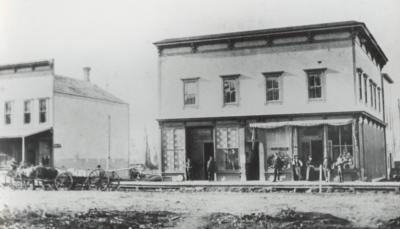 The original stores of Nooksack. Left to right: Dr. Thompson's Drugstore, Osterman and Elder Hardware Store which also housed the Post Office, M.J. Heney Grocery Store with a social hall above. In 1900 the Post Office moved to the north end of town. public domain archive photo shown at